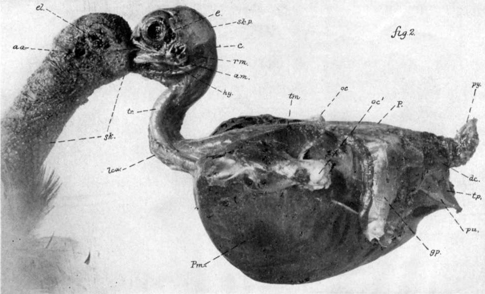 The last Passenger Pigeon Martha during skinning.